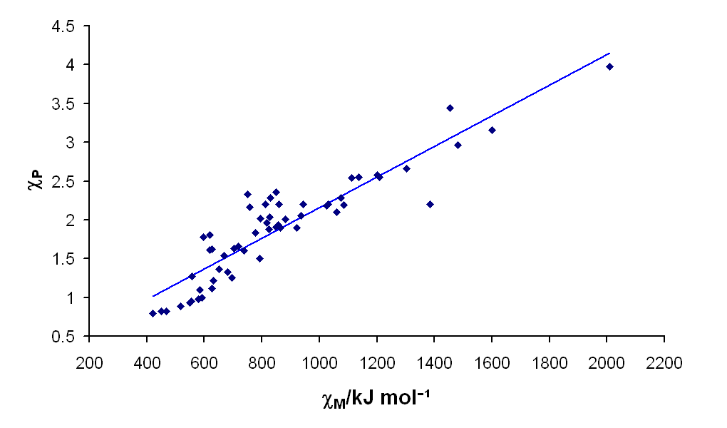 The correlation between Pauling electronegativity (y-axis, revised values) and Mulliken electronegativity (x-axis, in kJ/mol)